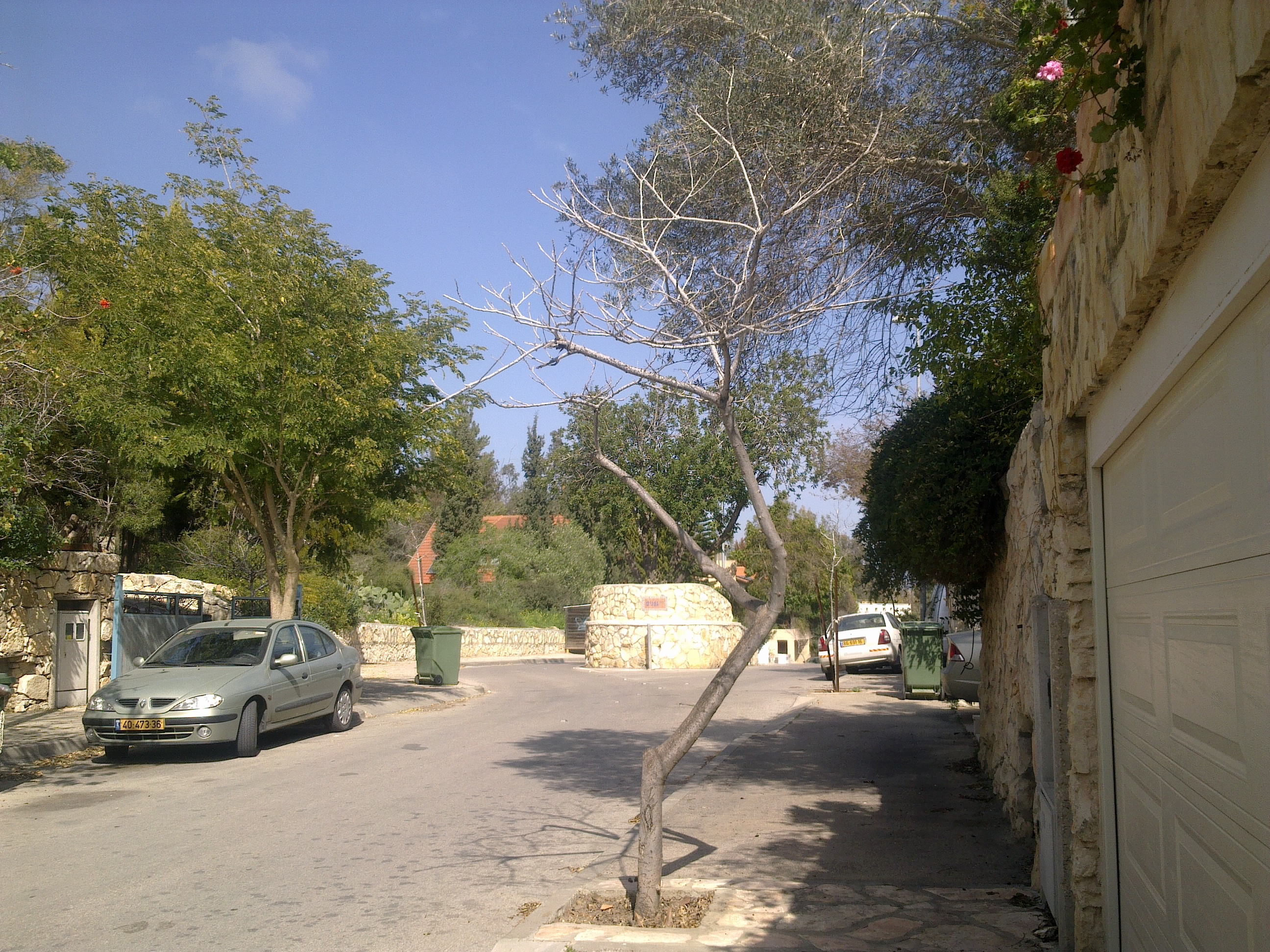 a street in Li-On Srigim רחוב בלי-און שריגים